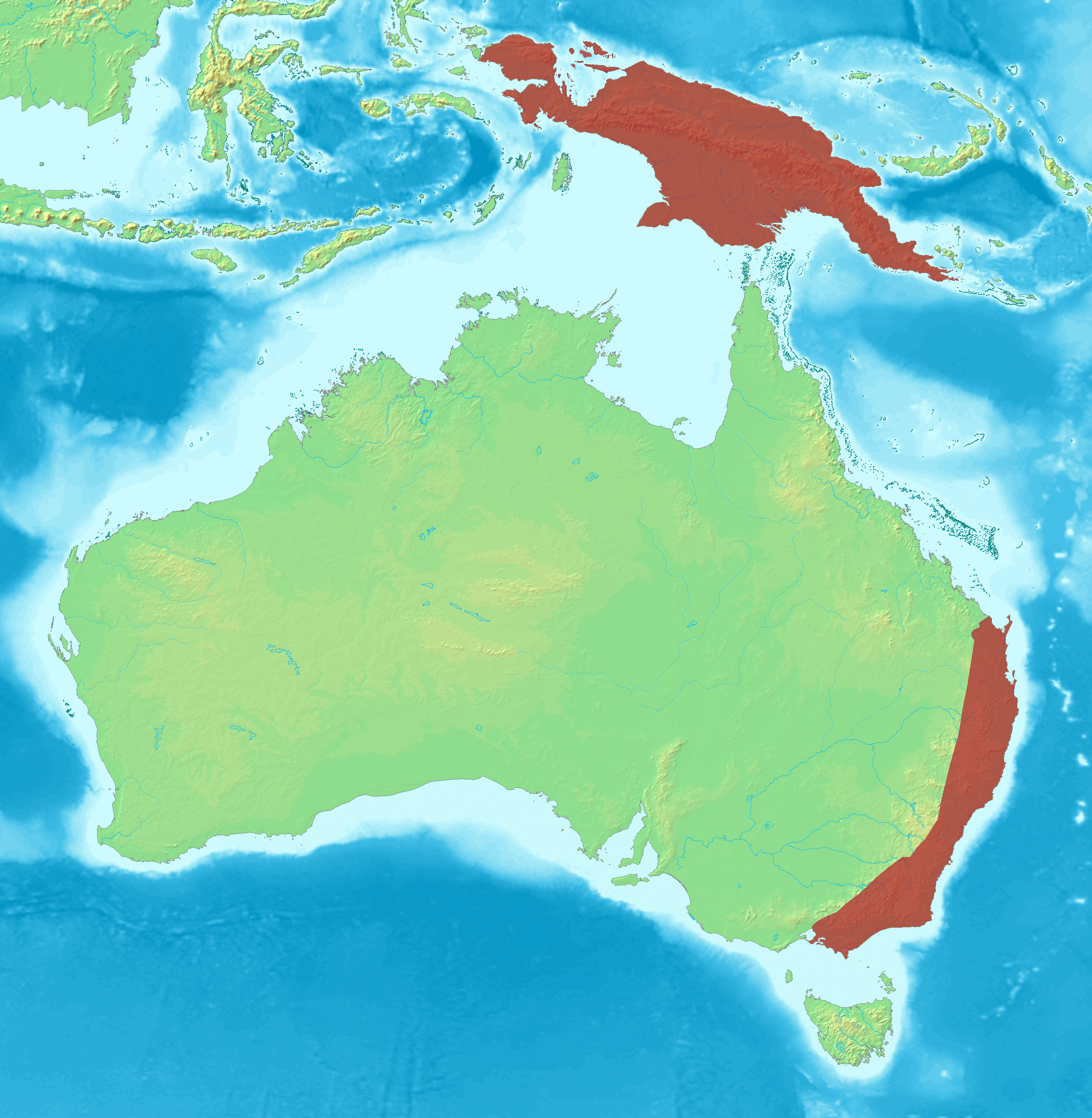 The Distribution of the Greater Sooty Owl